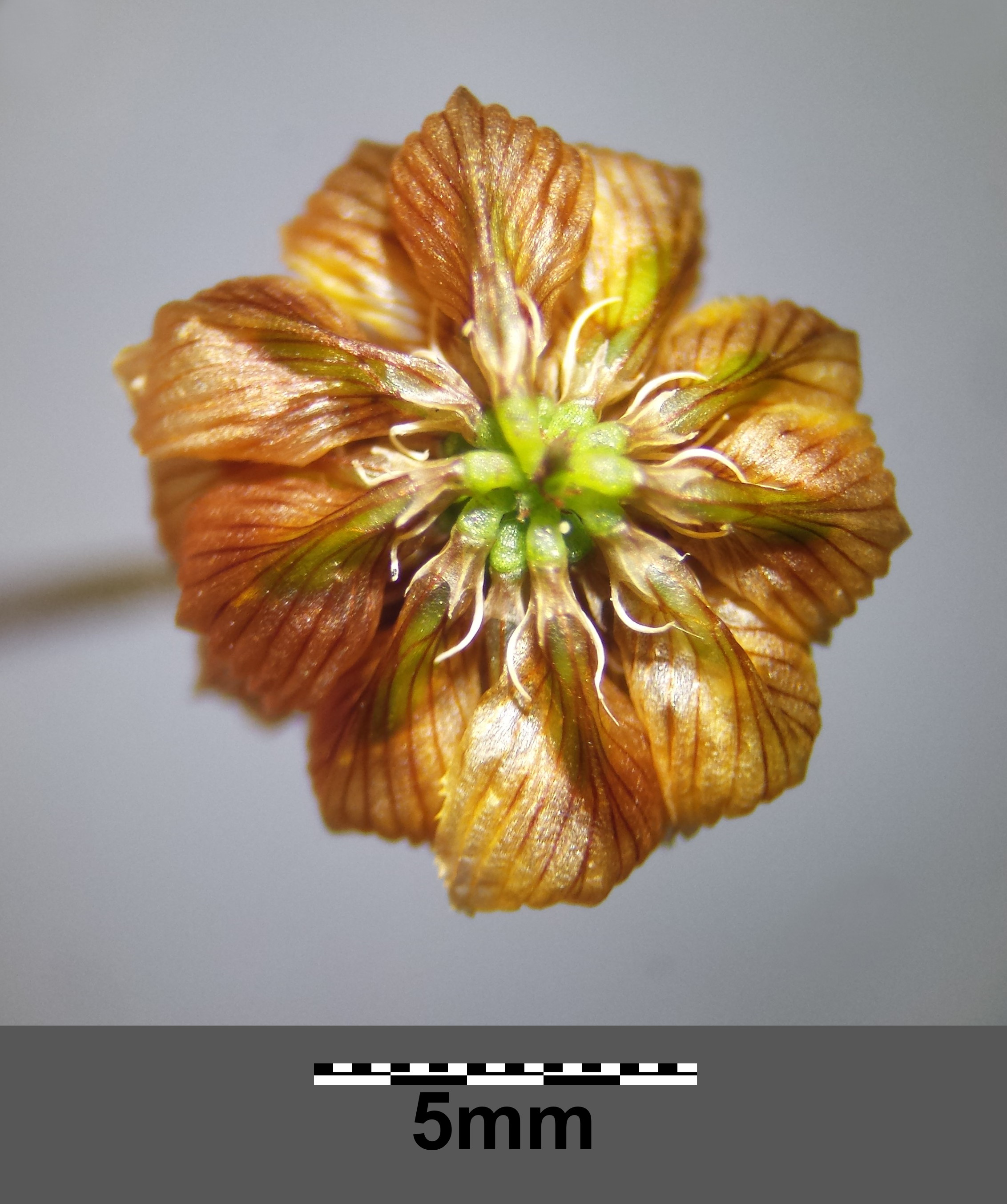 Infructescence Taxonym: Trifolium campestre ss Fischer et al. EfÖLS 2008 ISBN 978-3-85474-187-9 Location: Neue Donau, Vienna-Floridsdorf - ca. 160 m a.s.l. Habitat: dry meadows